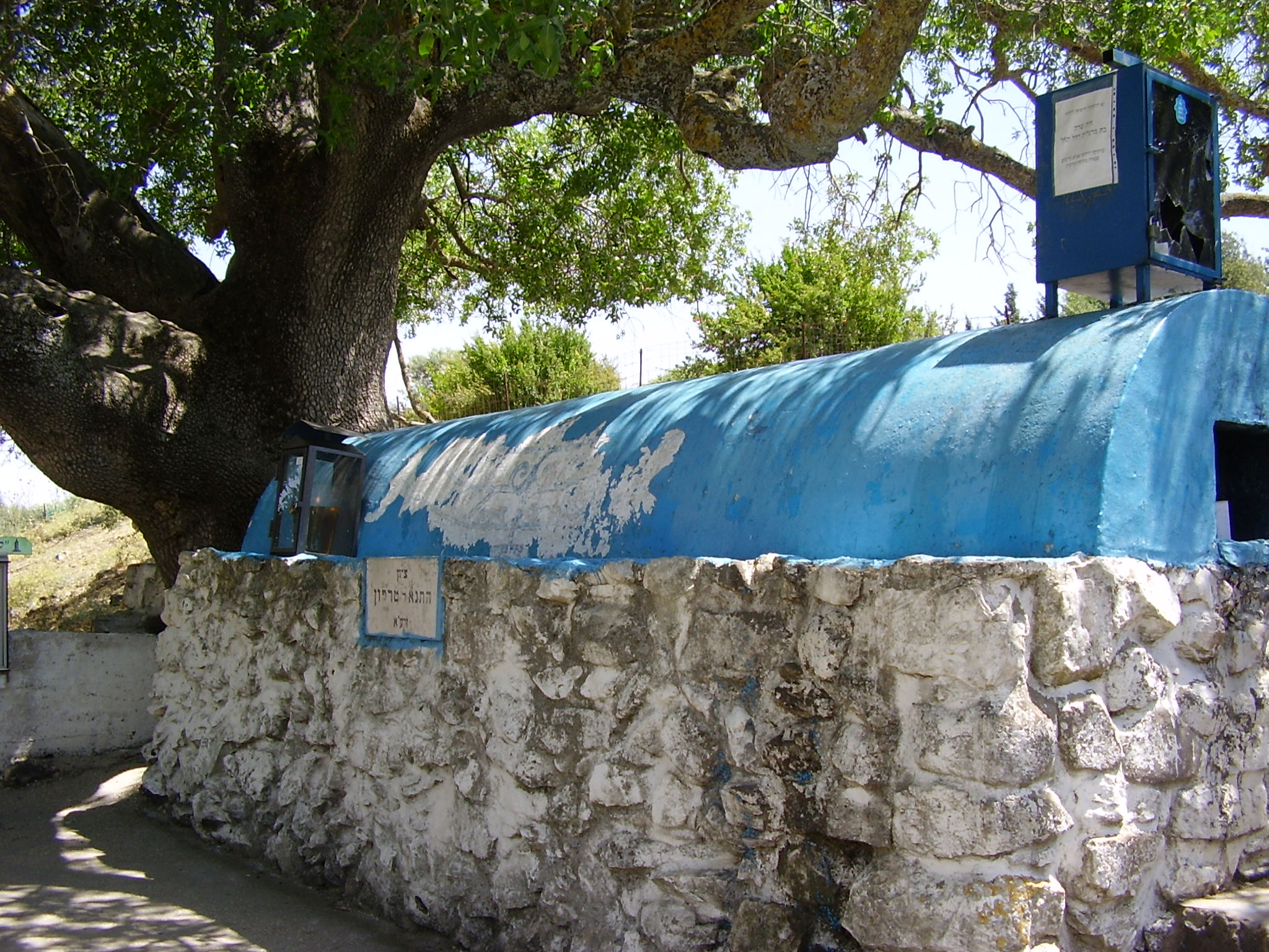 rabi tarfon\'s grave in kadita, upper galillee